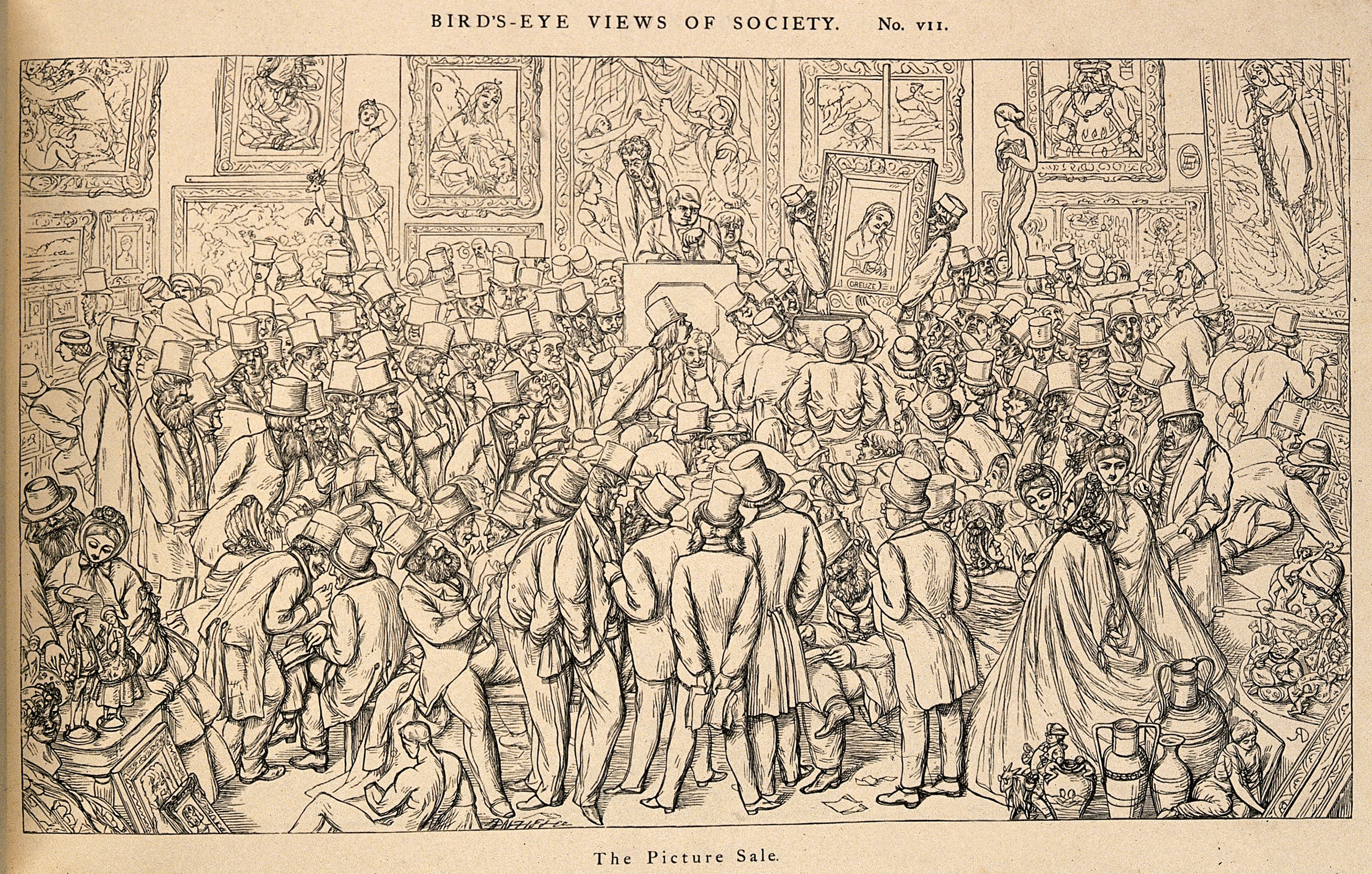 A popular art and antique auction. Reproduction of a wood engraving after Dalziel after R. Doyle. Iconographic Collections Keywords: bird's-eye views; Caricatures; Richard Doyle; Dalziel.; brunches; dalziel; Social Participation; upper classes; entertaining; manners and customs